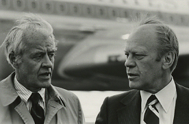 The photo contact sheet, identified as A9514 by the White House Photographic Office (WHPO), is housed at the Gerald R. Ford Presidential Library, a branch of the National Archives and Records Administration (NARA). This file is a 200 dpi photo contact sheet having images from roll of film A9514 of the August 9, 1974 - January 20, 1977 Gerald R. Ford White House Photographic Office Series A0001-A9999 and B0001-B2886 photographs. The date on the photo contact sheet is the date the roll of film was processed, not necessarily the date the photographs were taken. See table below for additional details.